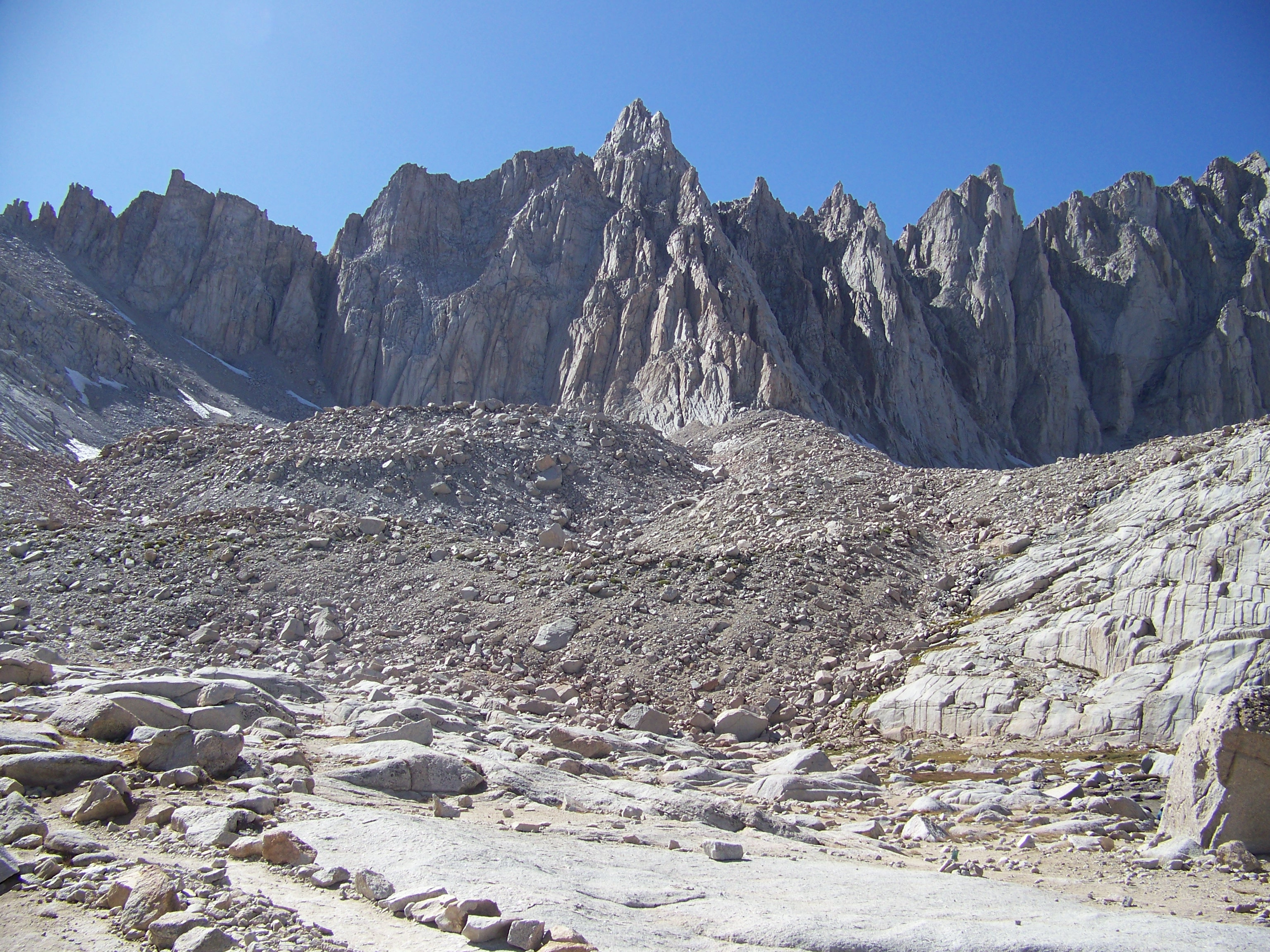 Mount Muir, 14,018 ft (4,273 m) and the Sierra crest — Eastern Sierra peak near Mount Whitney, within Sequoia National Park and the John Muir Wilderness. As seen from Trail Camp on the Mount Whitney Trail.